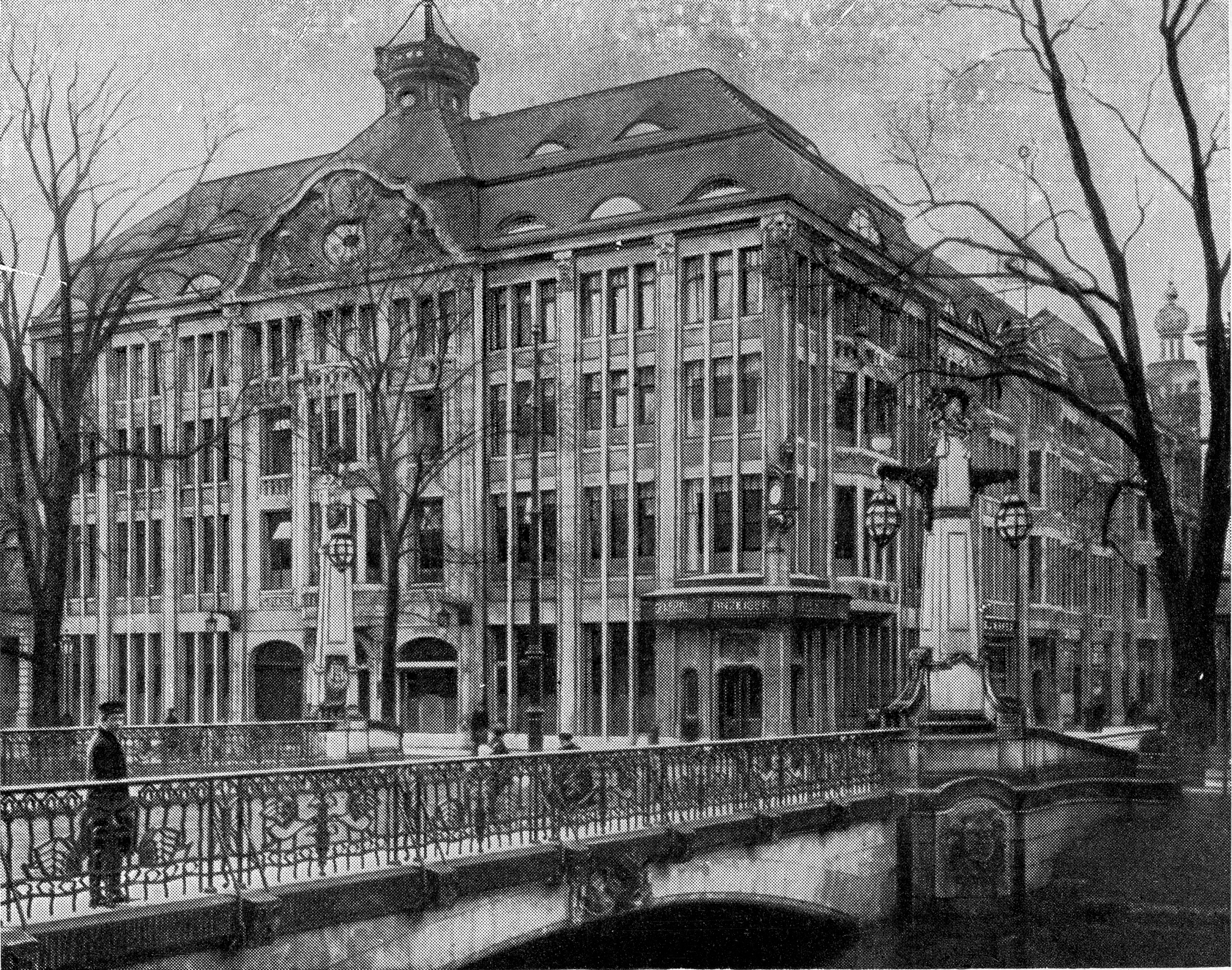 t